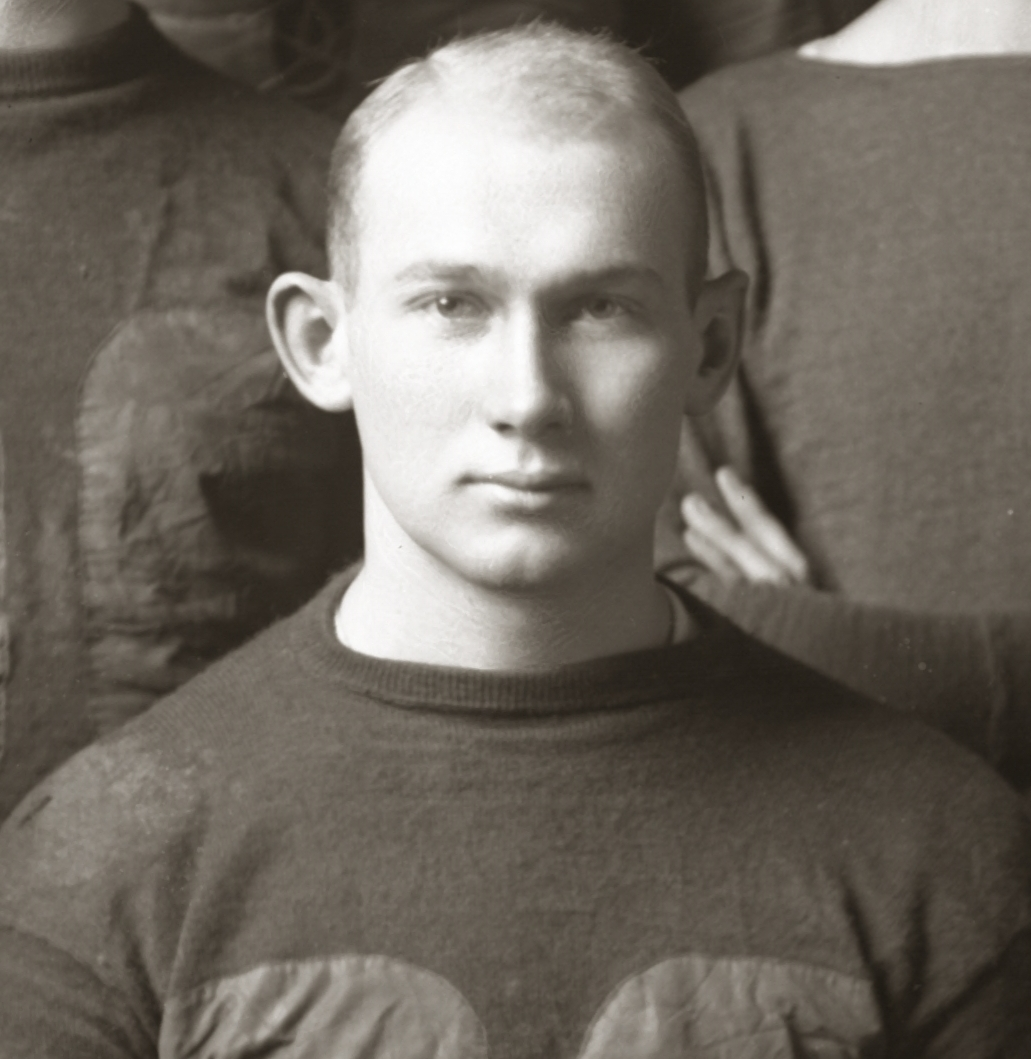 Photograph of Elton Wieman